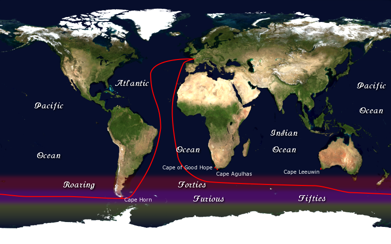 The route of the Vendée Globe round-the-world yacht race.